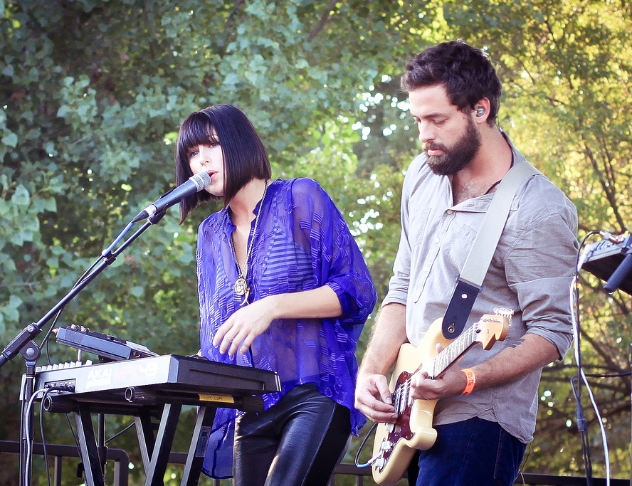 Phantogram live at The Pacific Festival (2011)